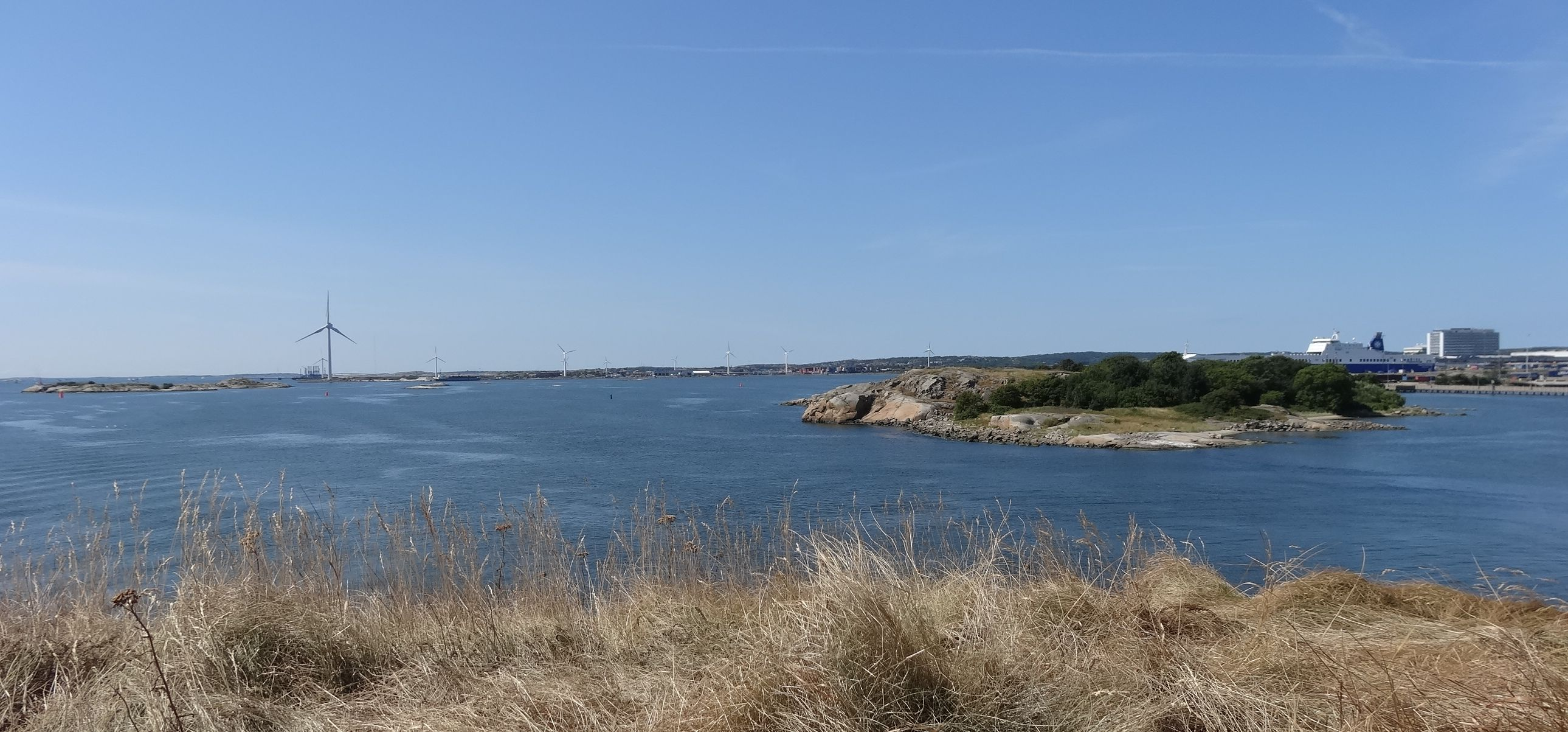 View towards west from bastion Humber, Nya Älvsborg fortress, Sweden. The island Stora Aspholmen is located at approximately 200 meters distance.